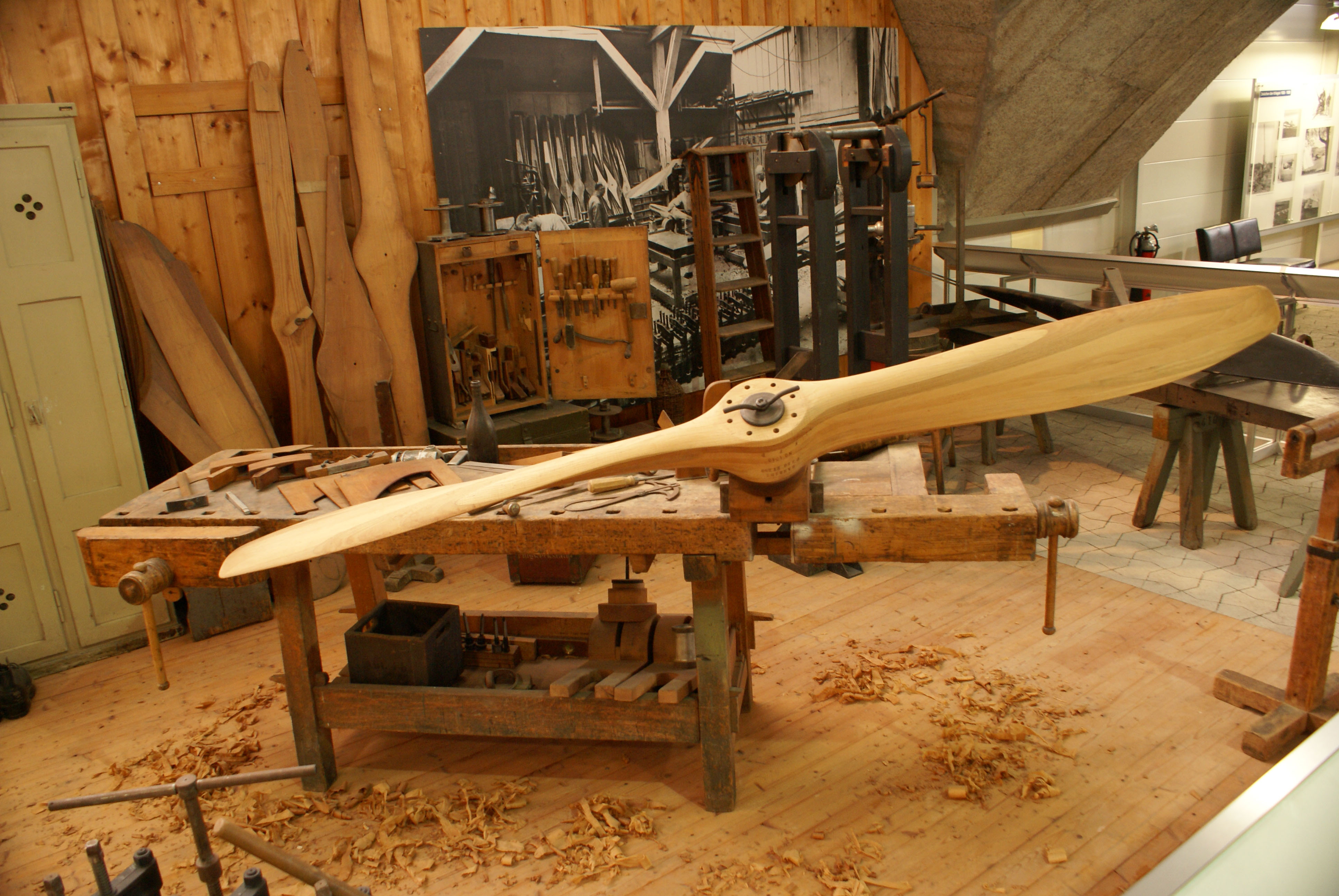 Replica of a wooden propeller as used by the Swiss Army Air Corps in World War I, on a period workbench.